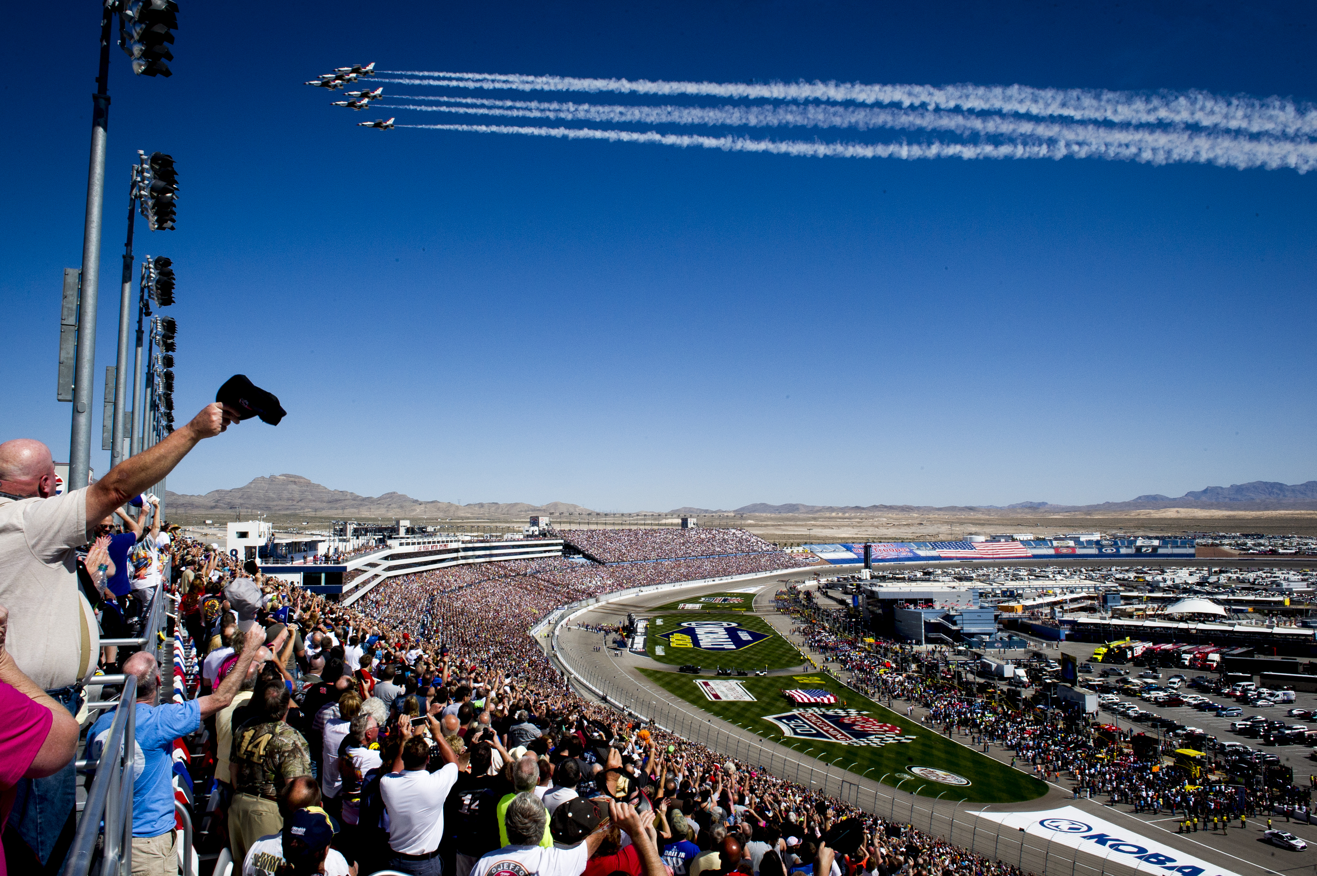 The U.S. Air Force Thunderbirds performs a fly-by over the Las Vegas Motor Speedway to start the NASCAR Kobalt Tools 400, March 8, 2015. (U.S. Air Force photo/Tech. Sgt. Manuel J. Martinez, Released)